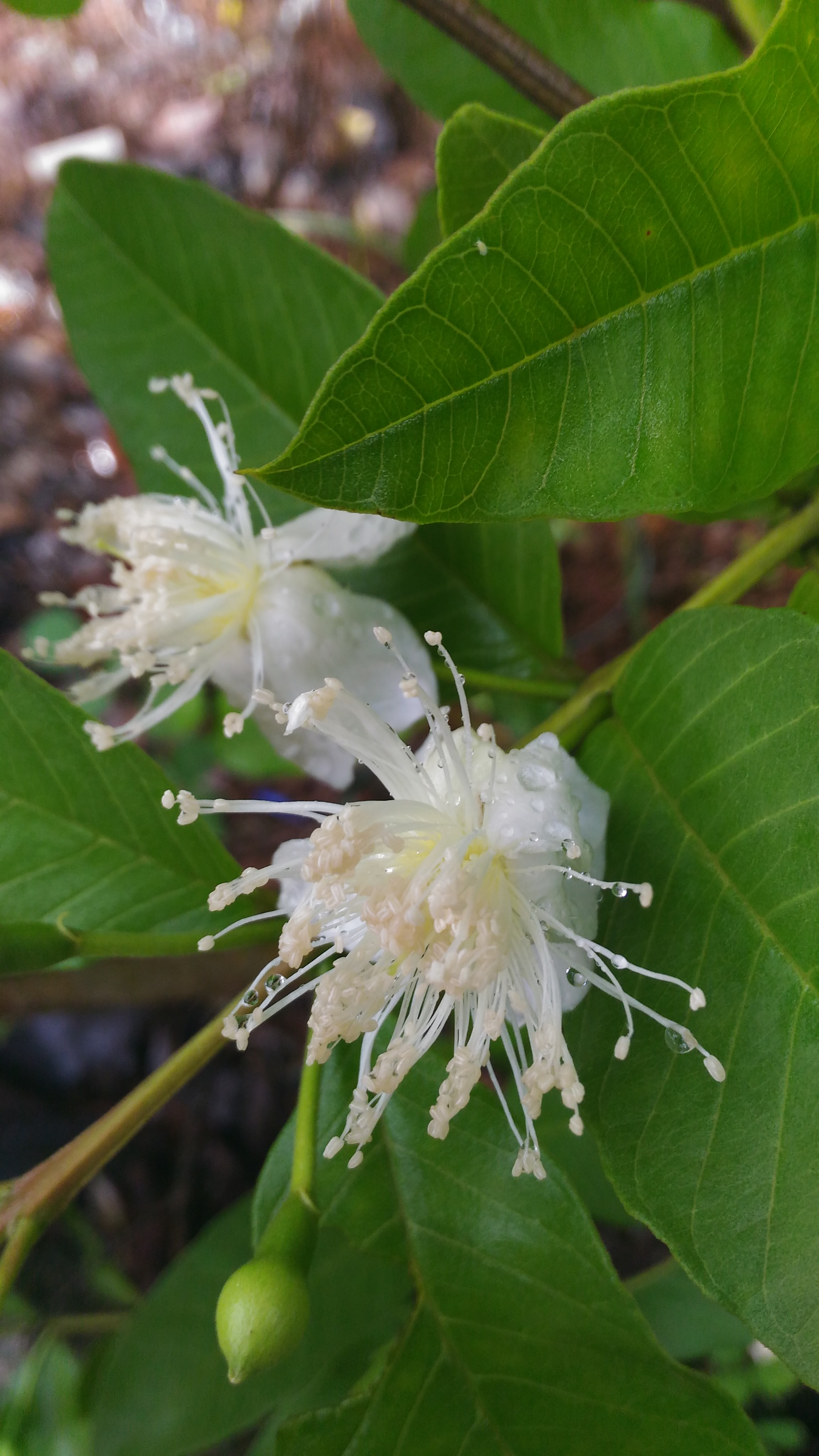 The flowers of Psidium guajava